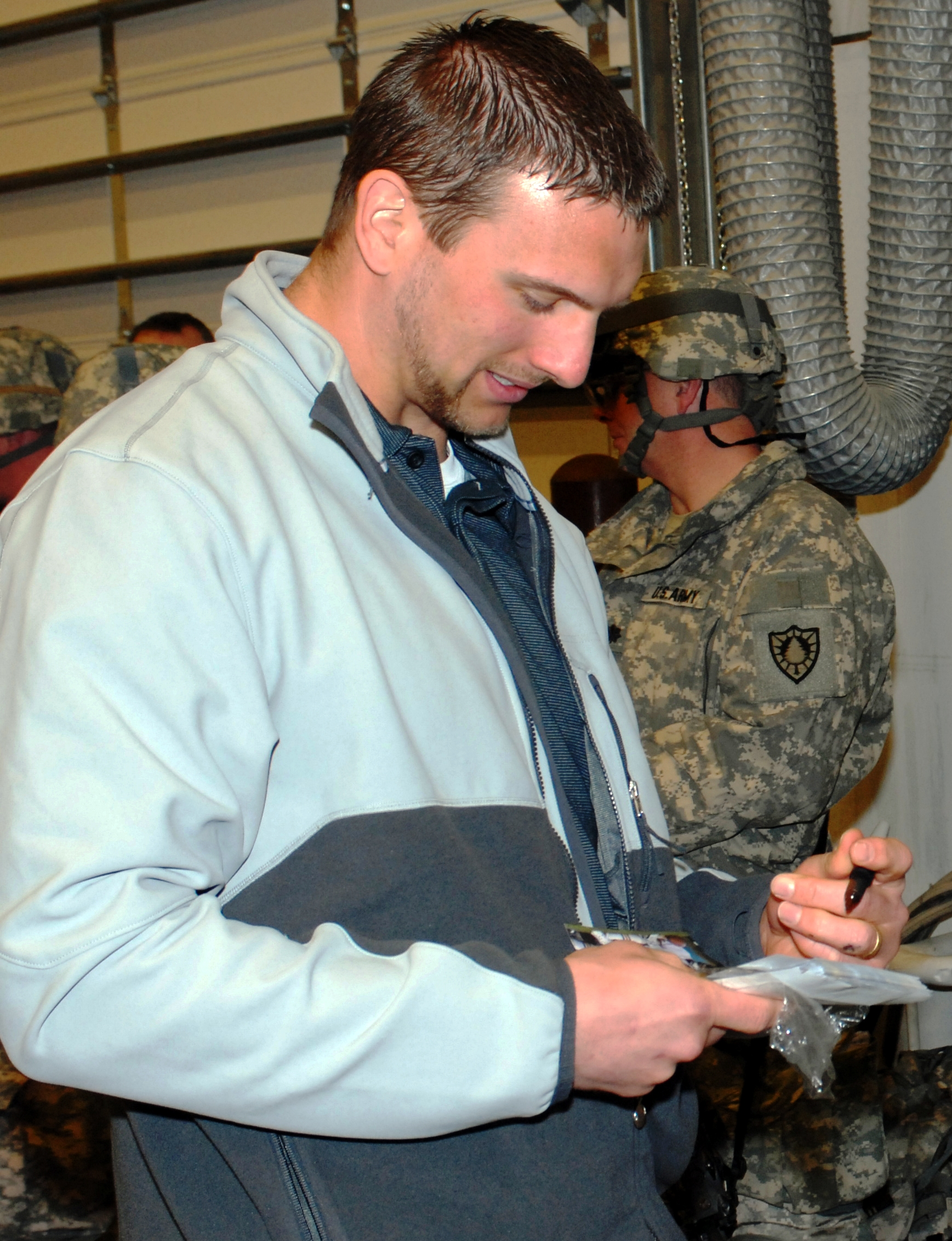 All-Star defensive end Aaron Kampman signs autographs for Transition Team members at Forward Operating Base, Fort Riley, Kansas.